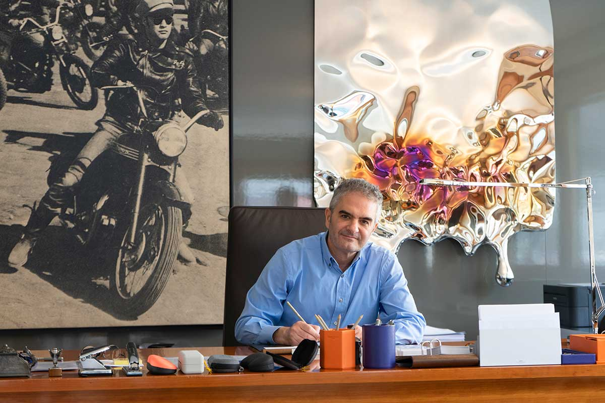 Isidre Bartumeu